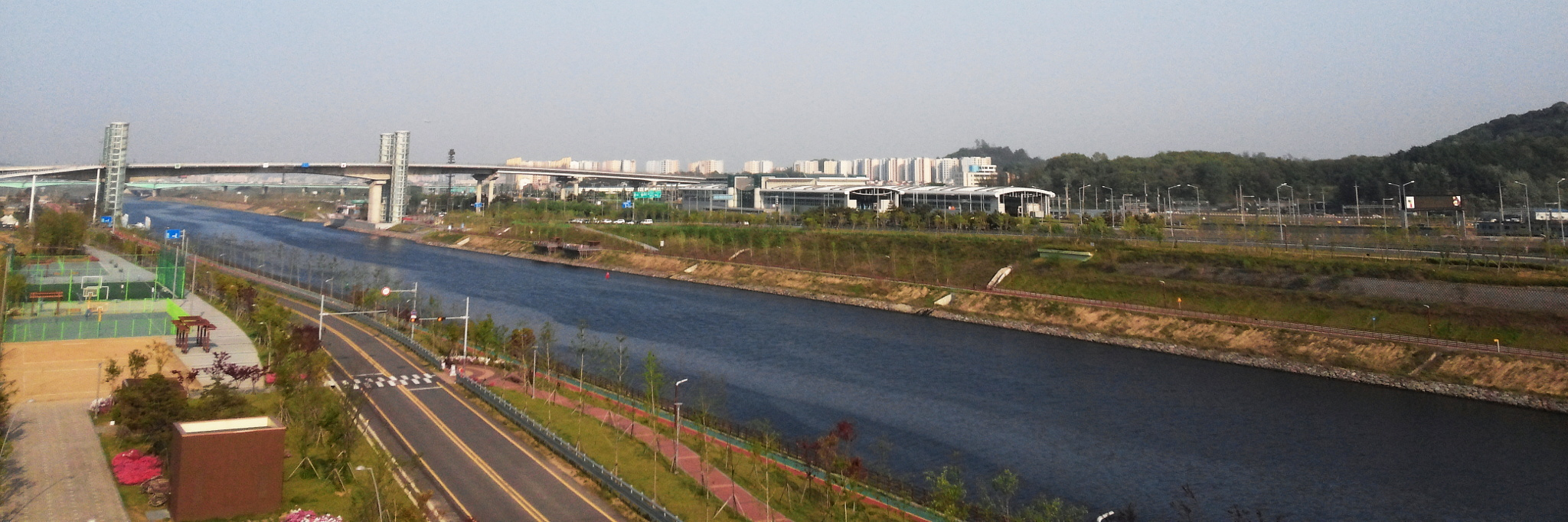 Ara Canal(Near Gyeyangdaegyo[Br.])